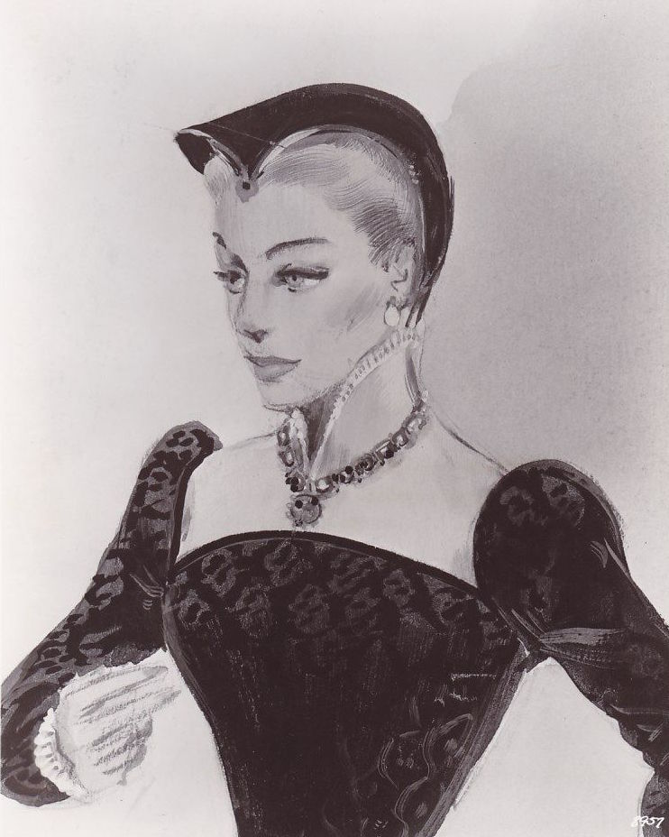 Lana Turner costume sketch for Diane, 1955 by Walter Plunkett